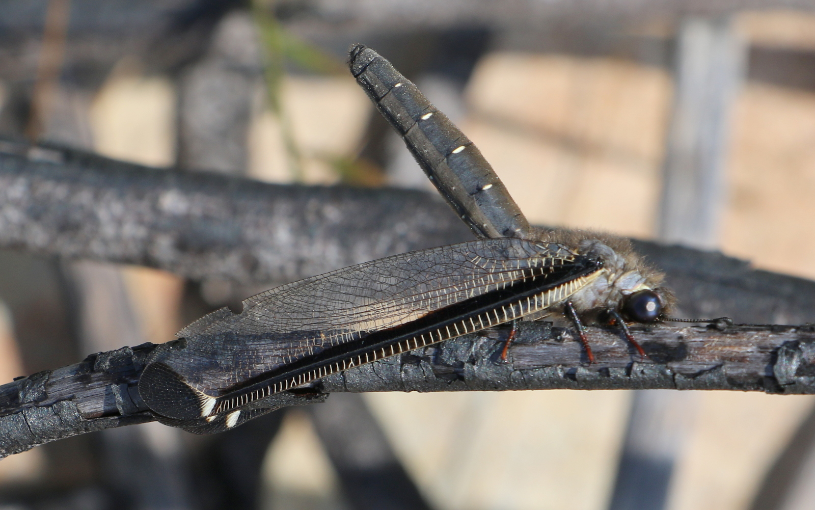 Stilbopteryx costalis, Silver Giant Lacewing. large flying insect off Topham Track, Ku-ring-gai Chase National Park